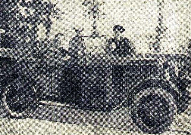 Entry #27 in the 1930 Rallye Monte Carlo is a Li Licorne 5CV with 904 ccm engine, driven by Hector Petit. He won the race this year.[1]